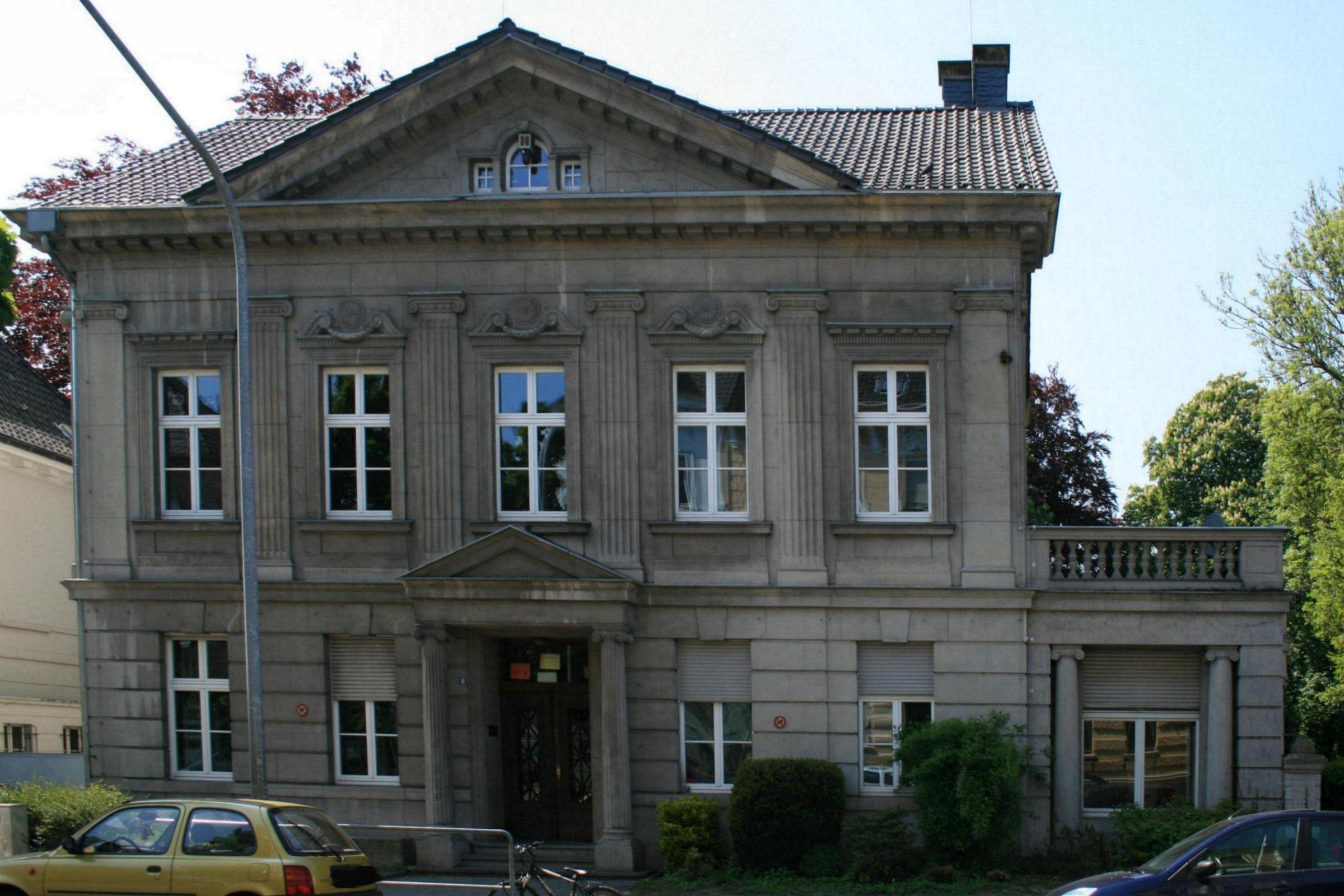 Cultural heritage monument No. B 072 in Mönchengladbach